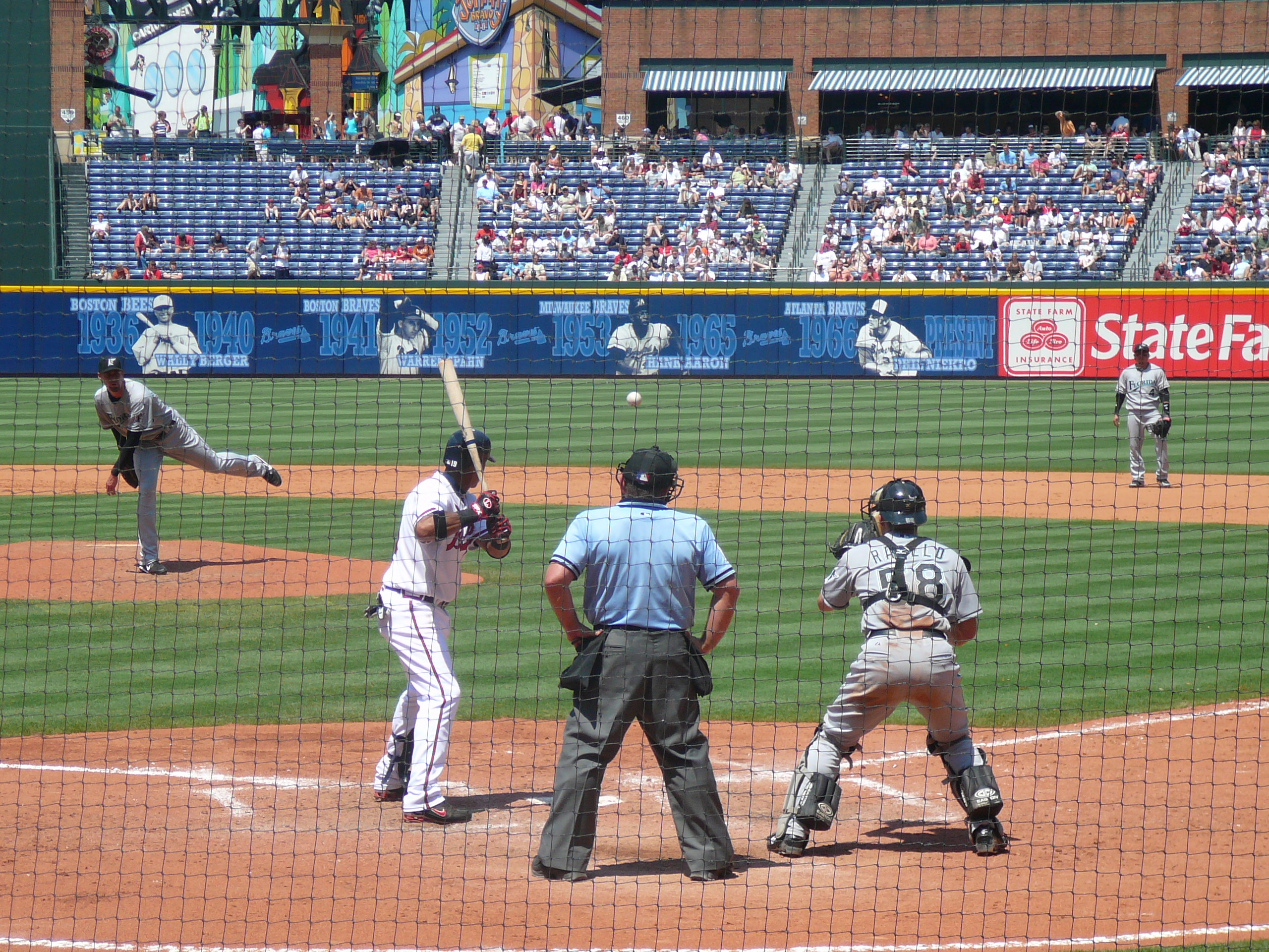 Please attribute photo with author's name if used somewhere other than Wikipedia. 20:10, 3 August 2008 . . Chrisjnelson . . 2,560×1,920 (3.26 MB)